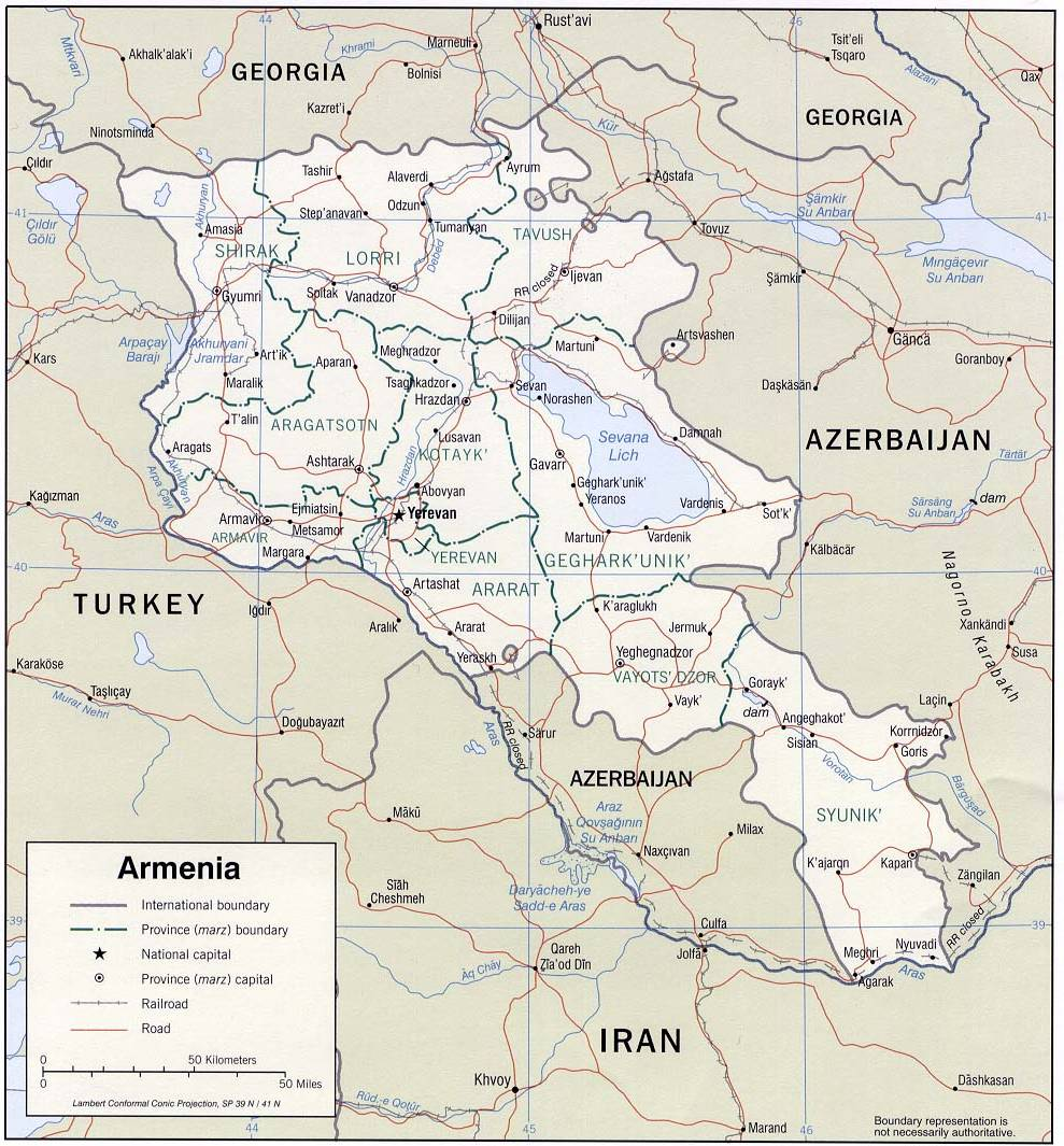 Map of Armenia.